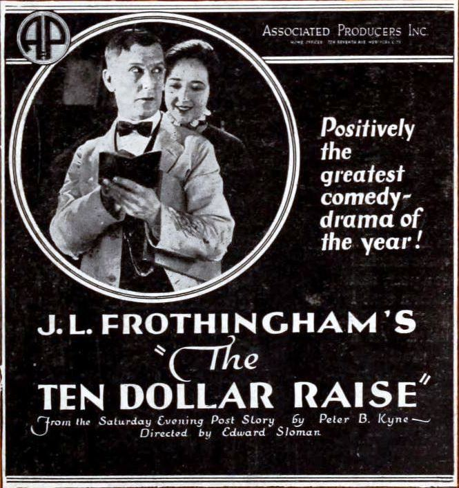 Advertisement for the American comedy film The Ten Dollar Raise (1921) with William V. Mong and Helen Jerome Eddy, on the front cover of the July 23, 1921 Exhibitors Herald.